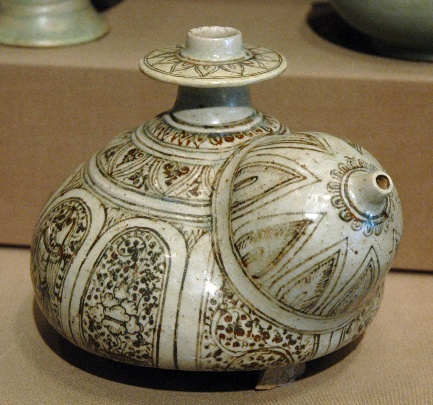 Teapot from the collection of the Asian Art Museum of San Francisco.